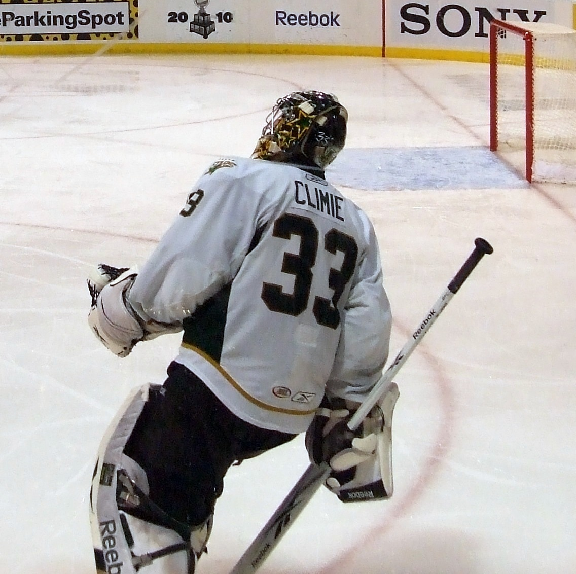 Matt Climie in round 3 of the 2009-2010 Calder Cup playoffs